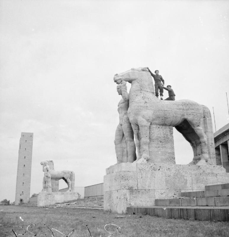 Germany Under Allied Occupation Gunner J Hamilton of Aberdeen and Lance Bombardier S Canfield of Leeds astride one of the great stone horses in the main Olympic Stadium in Berlin.